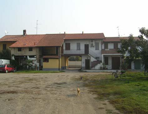 "Curta Granda" rural building in Castellazzo de' Stampi, Corbetta (MI) - Italy